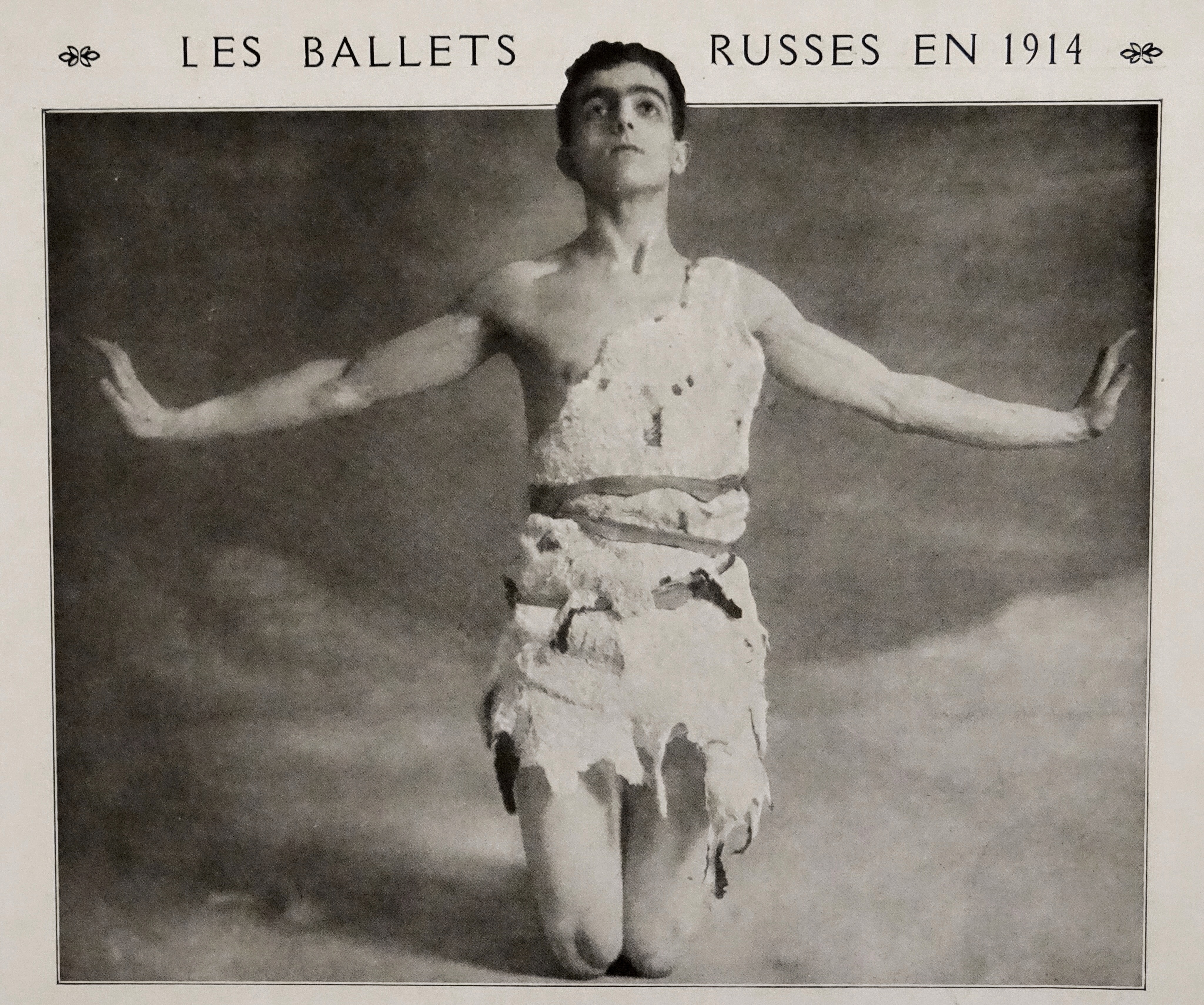 Léonide Massine in "The Legend of Joseph." Photo in Comœdia Illustre.